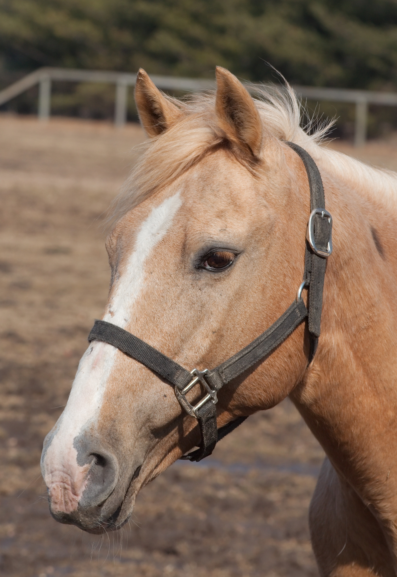 A horse (Equus caballus), taken in Urbana, IL.